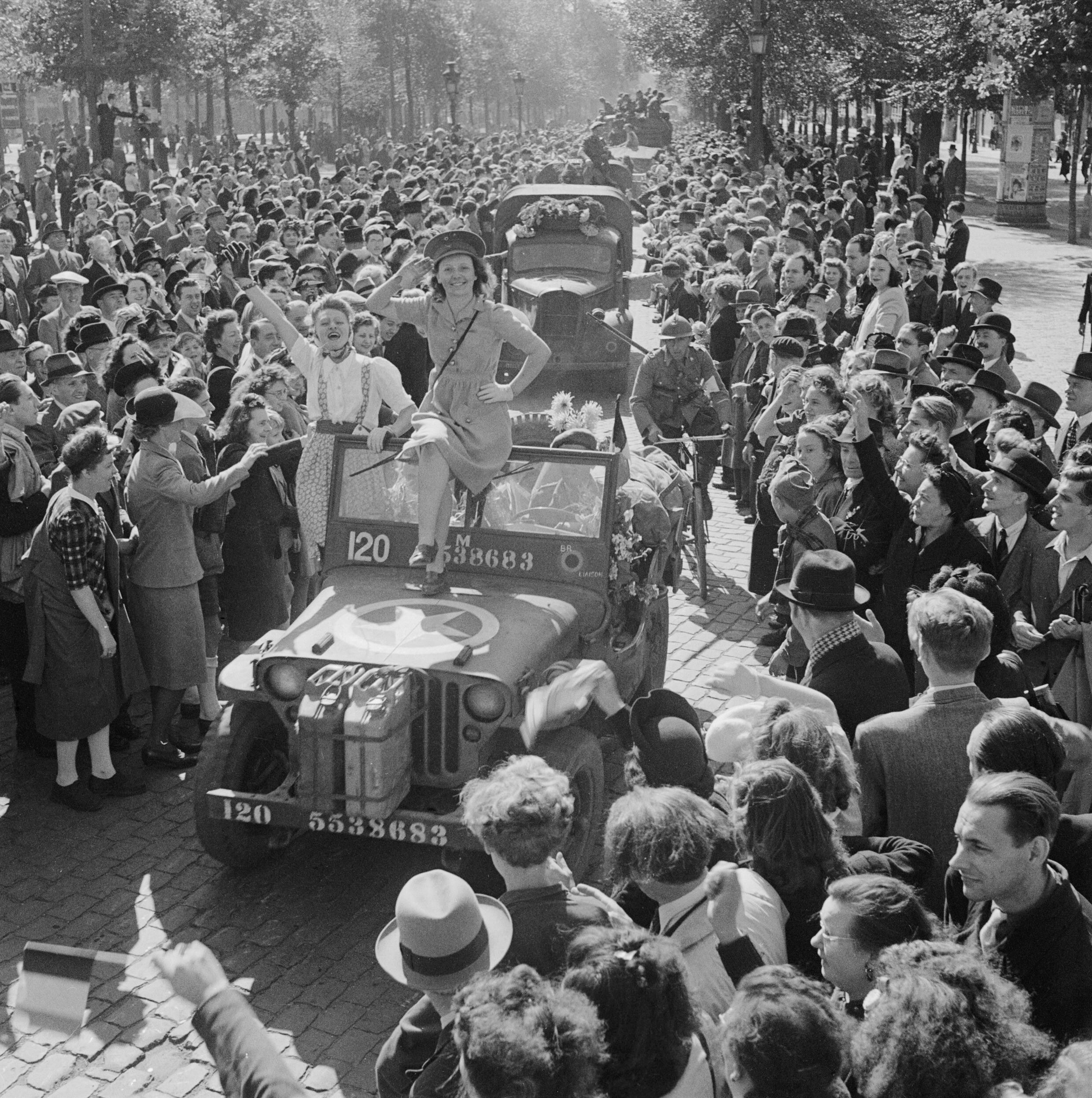 Cheering crowds greet British troops entering Brussels, 4 September 1944. Crossing the Seine and the advance to the Siegfried Line 24 August - December 1944: The inhabitants of Brussels greet British and Belgian troops after the liberation of the city.